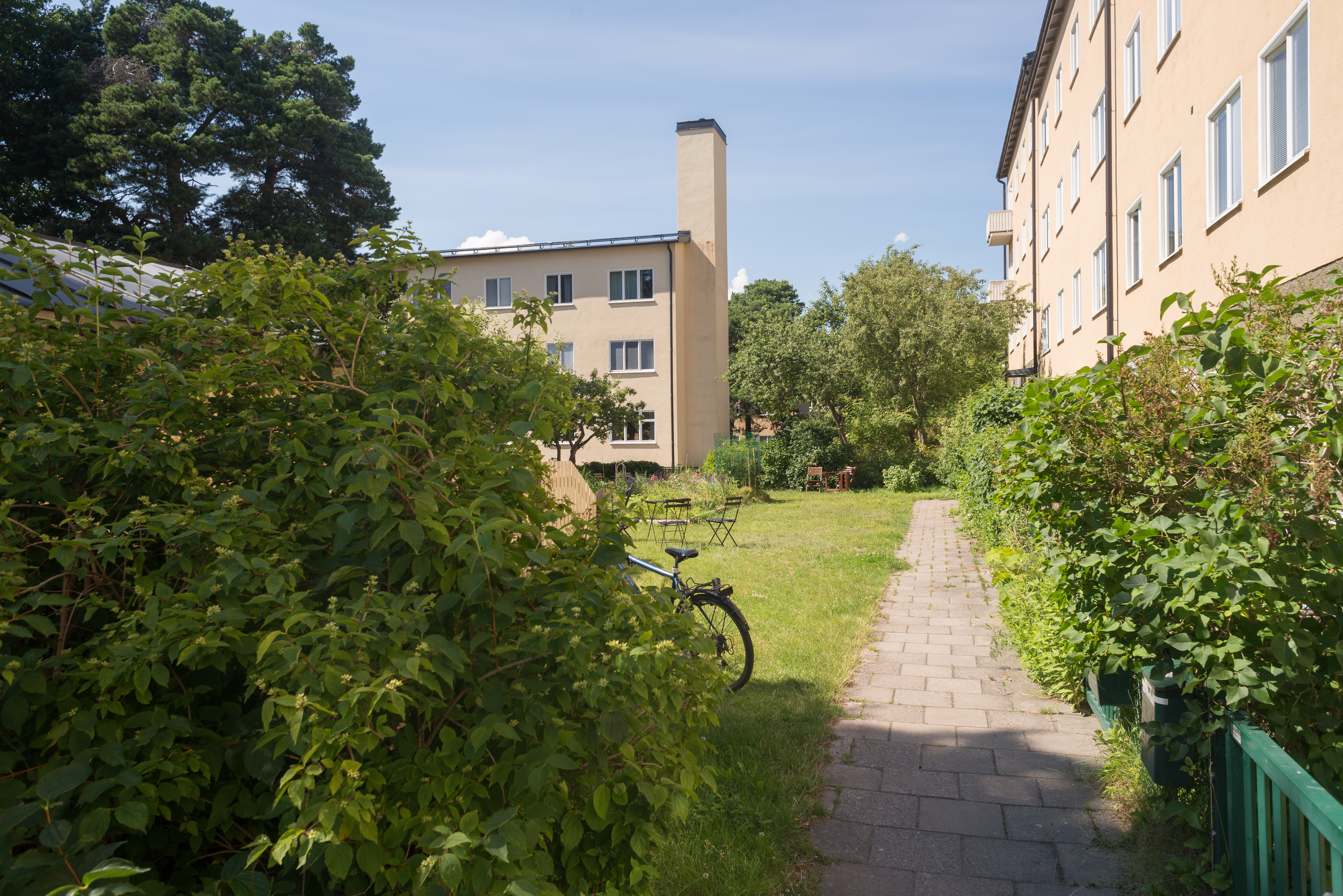 Buildings in Hammarbyhöjden.